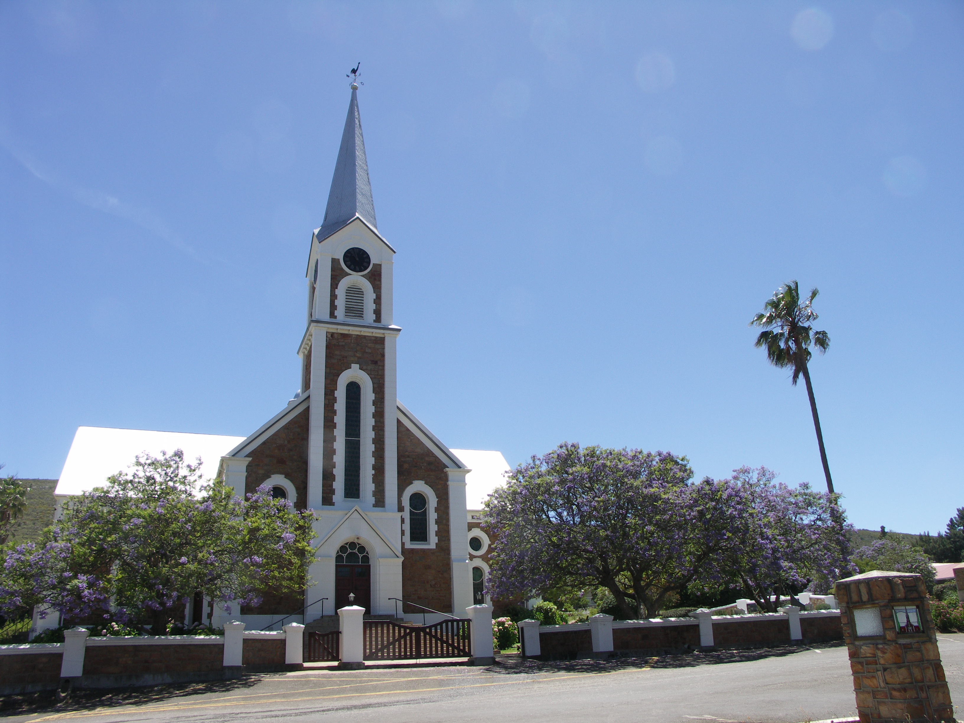 NG Church in Joubertina, Eastern Cape, South Africa